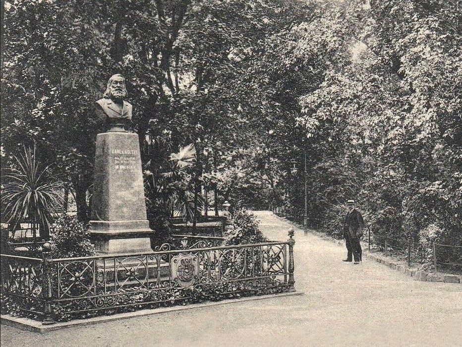 Statue of Karl von Holtei in Breslau